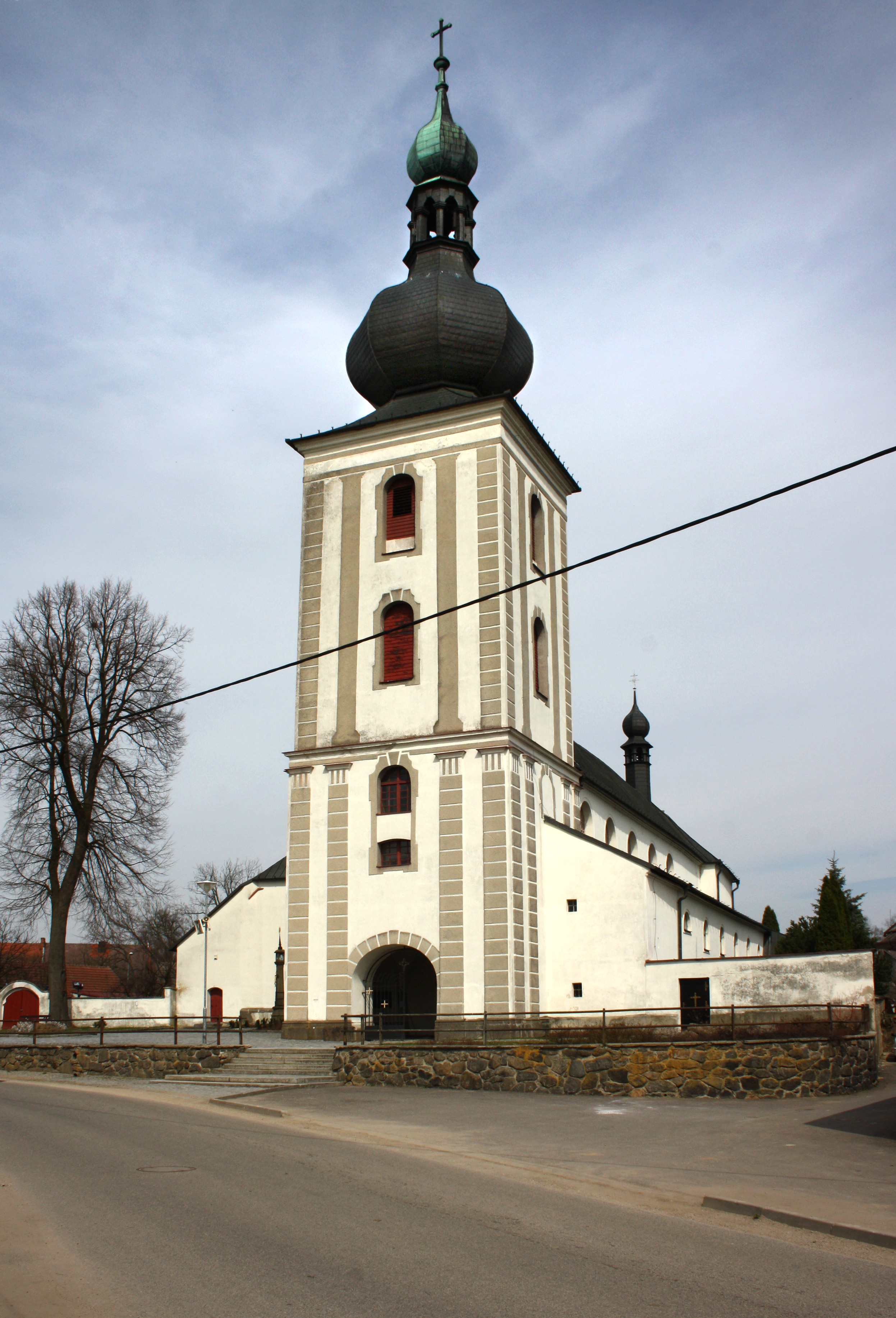 St. John the Baptist Church in Měřín